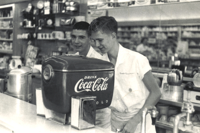 This is a scene showing the newly installed "Boat Motor" styled Coca-Cola soda dispenser just after the dispenser's installation at Fleeman's Pharmacy, Atlanta, Georgia, circa 1948. The legend is that this "Boat Motor" styled Coca-Cola dispenser was the first ever of this 1948 model installed anywhere, and in this case was installed in the city where Coca-Cola was created. The pharmacy was originally built in 1914 under the name Atkins Park Pharmacy and in the 1930's became known as Cox & Baucom; all in an era that came to be called “the golden age of soda fountains." From its very onset in 1914, the pharmacy began to serve Coca-Cola, and when it closed it's doors in 1995, it had gained the distinction of being the longest-running establishment anywhere to have served Coca-Cola — having served Coca-Cola from the same location for eighty-one years straight. Jack Fleeman took over the pharmacy from Messrs. Cox & Baucom. During its existence, Fleeman's Pharmacy became basically the very first Coca-Cola museum, and the walls of the establishment featured rare Coca-Cola artifacts from years past. Some of the Candler family, descendants of Coca-Cola founder Asa Griggs Candler, had been known to sometimes visit with Jack Fleeman over the years, and it has been said, that sometimes they would gift Jack Fleeman some old Coca-Cola mementos passed down through the Candler family for his pharmacy museum. The photograph shows two 'soda jerks,' a name given to young teenagers who worked in commercial establishments that served carbonated soda products of years gone by.